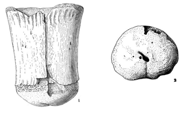 Illustration of a dorsal vertebra of Thecachampsa sp. collected from Liverpool Point, Maryland. 1. Dorsal view. 2. Posterior view. Printed in Eocene, Volume 1 by the Maryland Geological Survey, William Bullock Clark (1901).